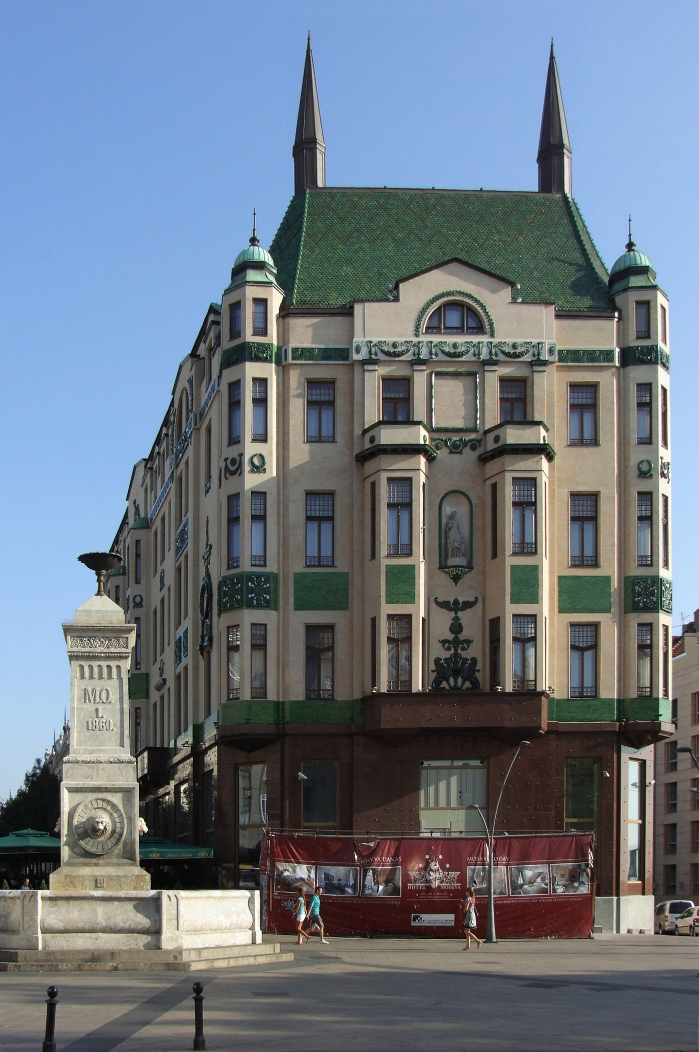 Hotel Moskva, Belgrade